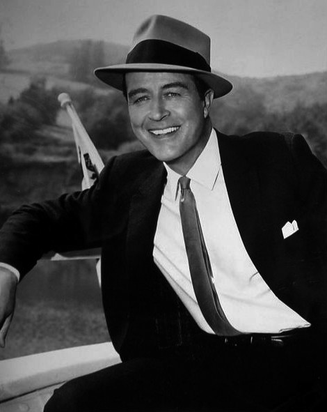 Publicity photo of Ray Milland for the CBS television program Markham.